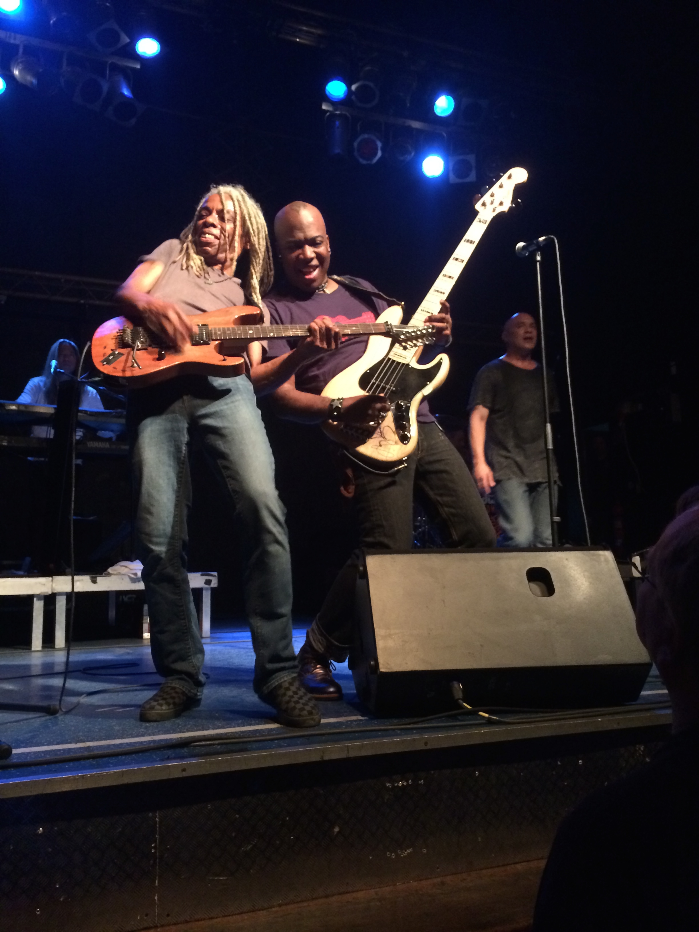 Brion James, Melvin Brannon and Dan Reed of Dan Reed Network on stage in Bremen (Germany) on June, 6th, 2014